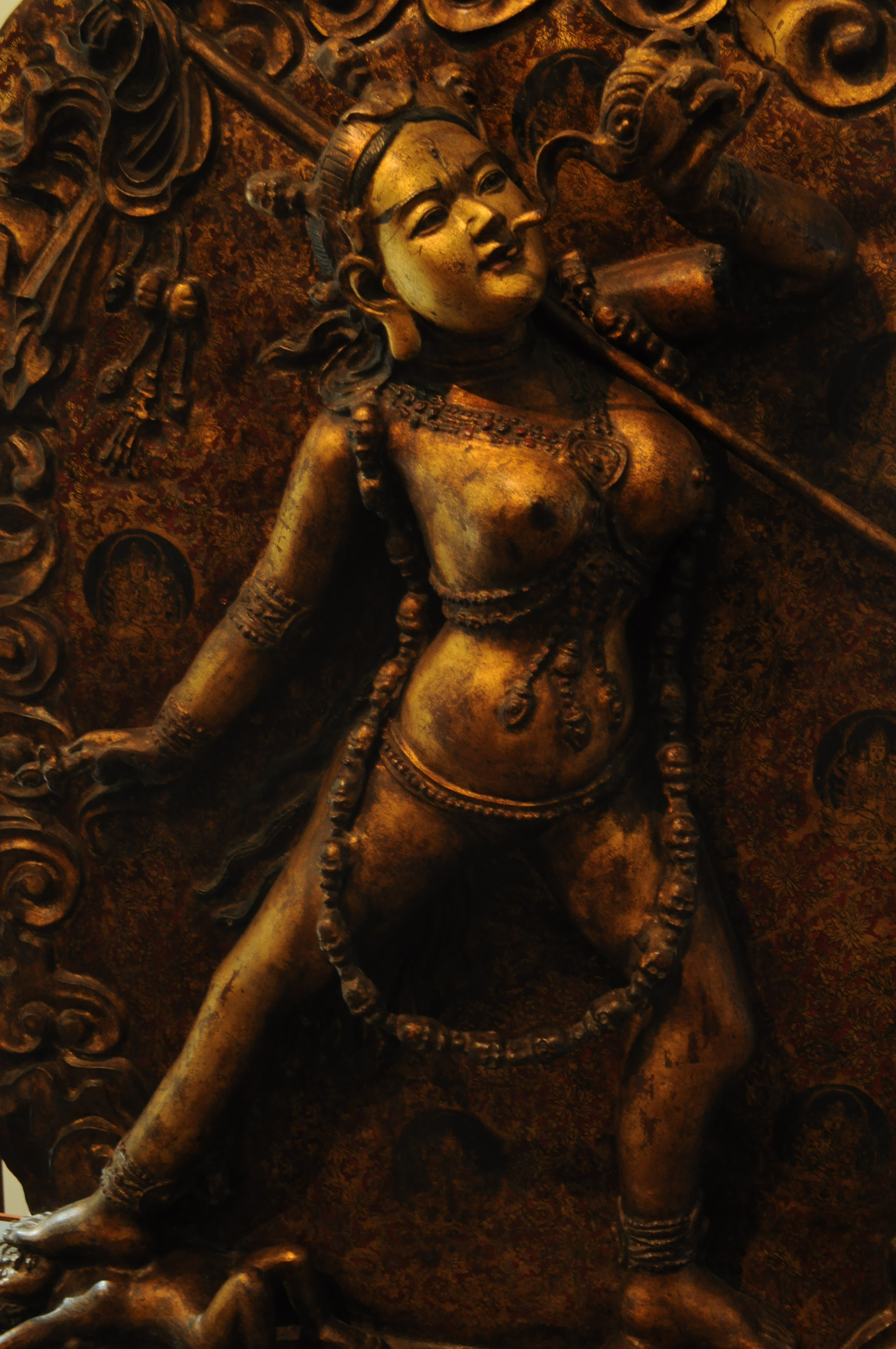 Sarva Buddha Dakini (Dakini of All the Buddhas) or (Tibetan) Naro Kandhoma, Sino-Tibetan culture, early 19th century, copper alloy, hammered high relief, black and red lacquer, red paint, gilt. Accession number 2011.63. Part of the tantric art exhibit Honored Father-Honored Mother, Trammell & Margaret Crow Collection of Asian Art, Dallas, Texas, USA.